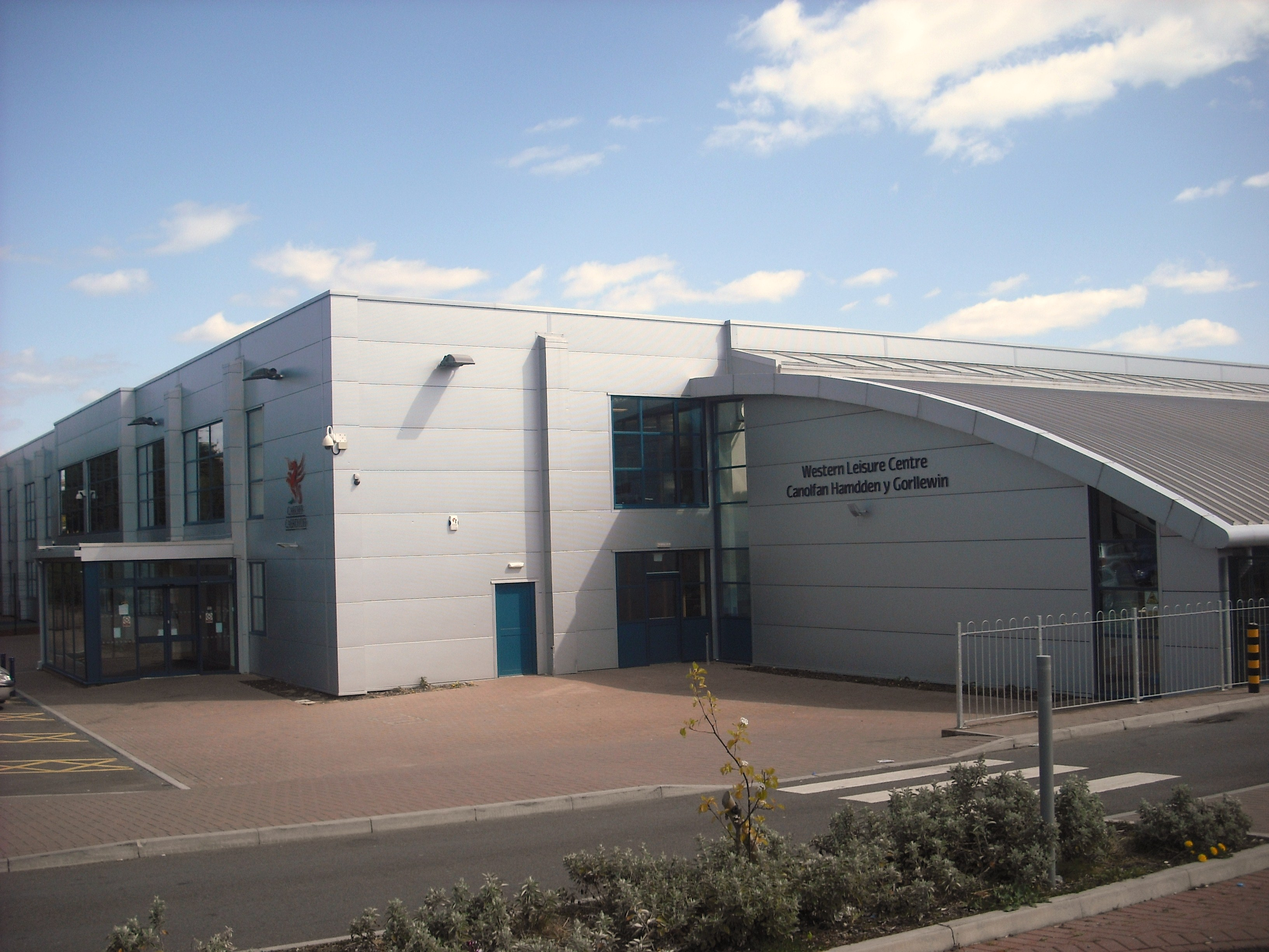 Western Lesiure Centre in Cardiff